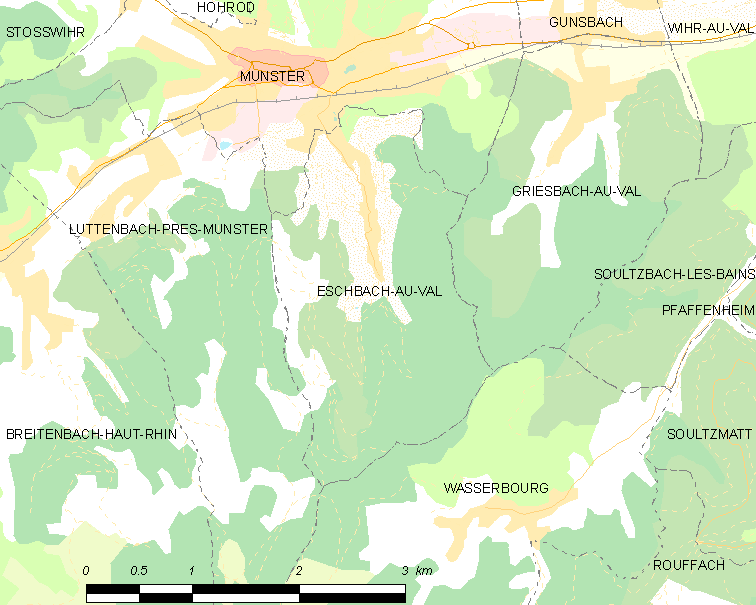 Map of French municipality